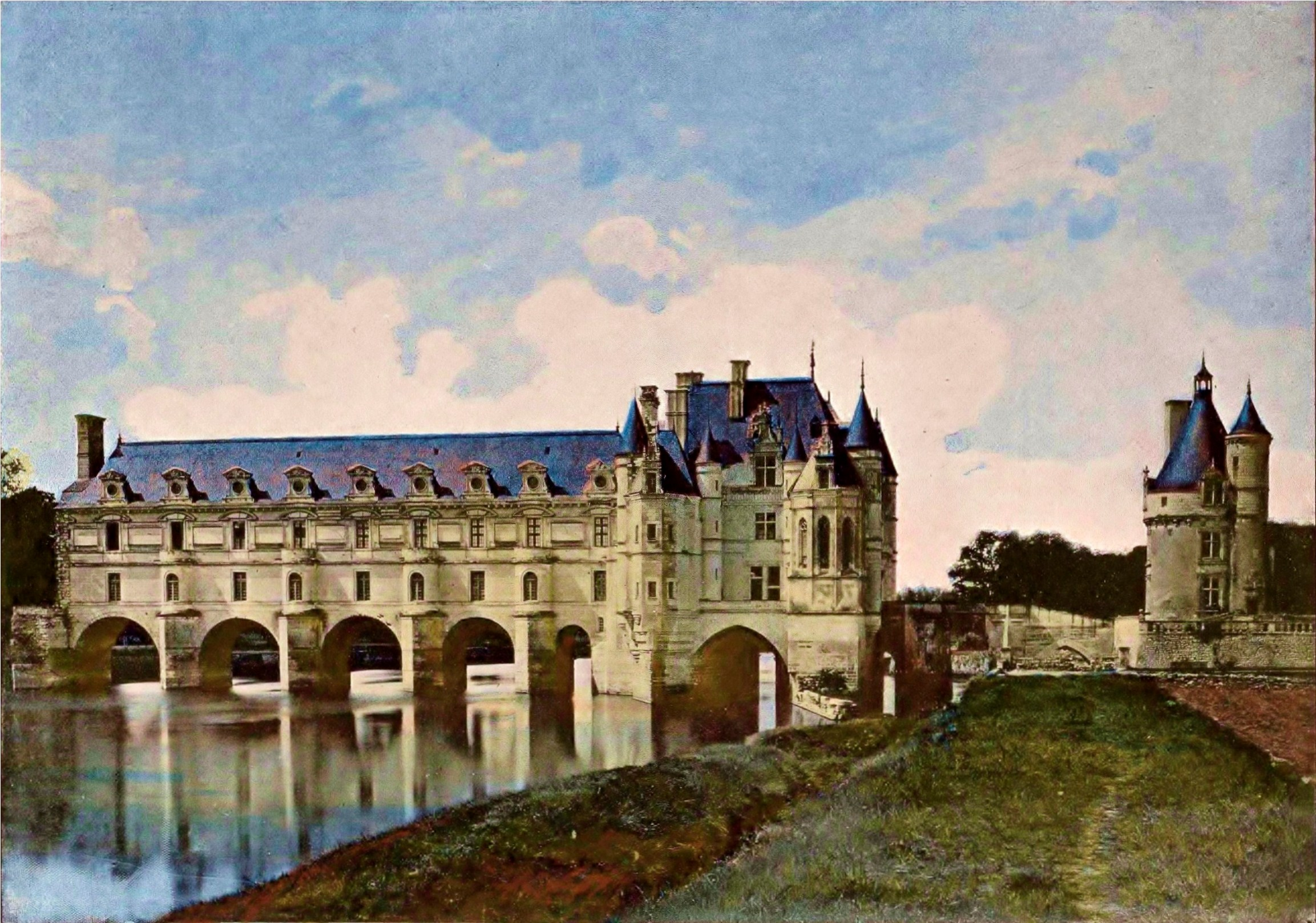 The castle of Chenonceau, photograph by Daniel Freuler and published in 1896 in France, watercolors, memories of travels, issue n° IX, the castles of the banks of the Loire, editor L. Boulanger in Paris. Note that the Diane's garden does not have its elevated terraces yet, but only a protection of the floods of the Cher by a lifting of earth. This suggests that this representation of Chenonceau must date from the period when Mrs Pelouze is owner of the castle of Chenonceau and therefore before 1888. The process used is photochromy. Daniel Freuler was born in Puteaux 31 May 1862 (birth certificate dated 1 June 1862, n° 126). Widowed first marriage of Marie Prévot (died at the age of 36 years, 23 October 1899 in the 15th arrondissement of Paris) and married in second marriage in Paris in the 14th arrondissement on 29 January 1901 with Louise Antoinette Cagny. He is of Swiss nationality. Daniel Freuler is an active photographer from the 1880s to the beginning of the 20th century. Workshops in Paris : 8 rue de La Barouillère (now rue Saint-Jean-Baptiste-de-La-Salle), then 195 rue de Vaugirard and finally 169 rue de Vaugirard.